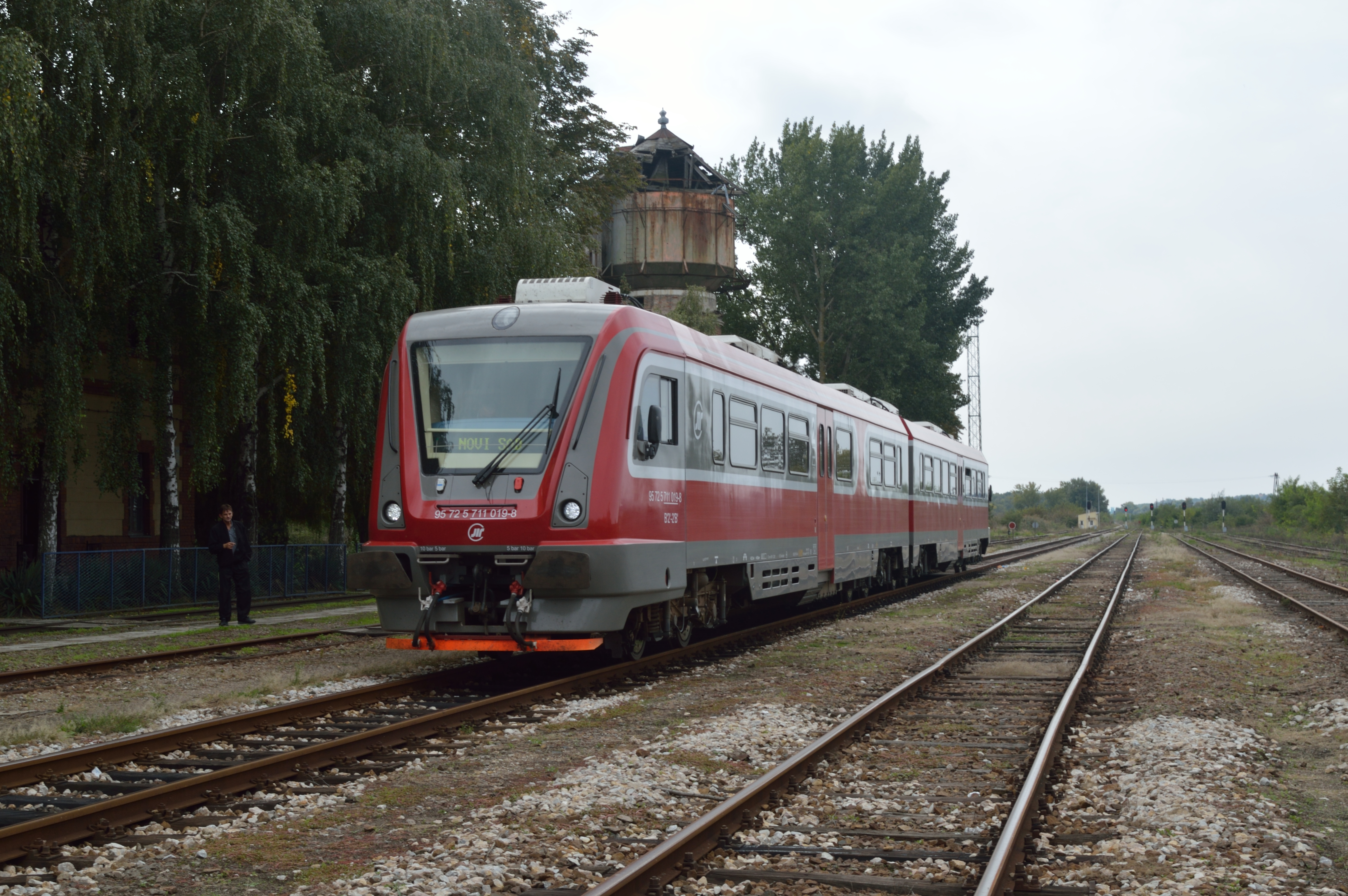 Balkans Rail Trip, Autumn 2013 - Day Three Another example of the new Russian built class 711 2-car DMU. This was a busy service I used on 25 September 2013 although some sections of the route only see two services each way per day. Seen at Bogojevo where the train reverses. The line ahead continues over the river Danube into Croatia at Erdut. Prior to the war this line was opened up for through traffic, however the line now only remains open for freight traffic. Train details = set 711.019 working train 5435, 10:33 Sombor to Novi Sad.